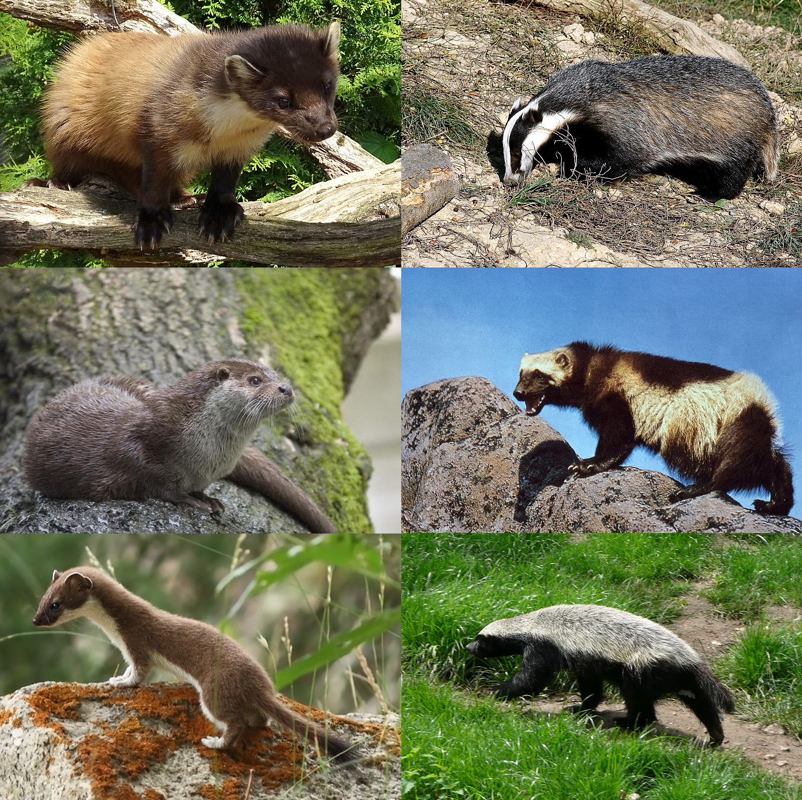 Mustelidae